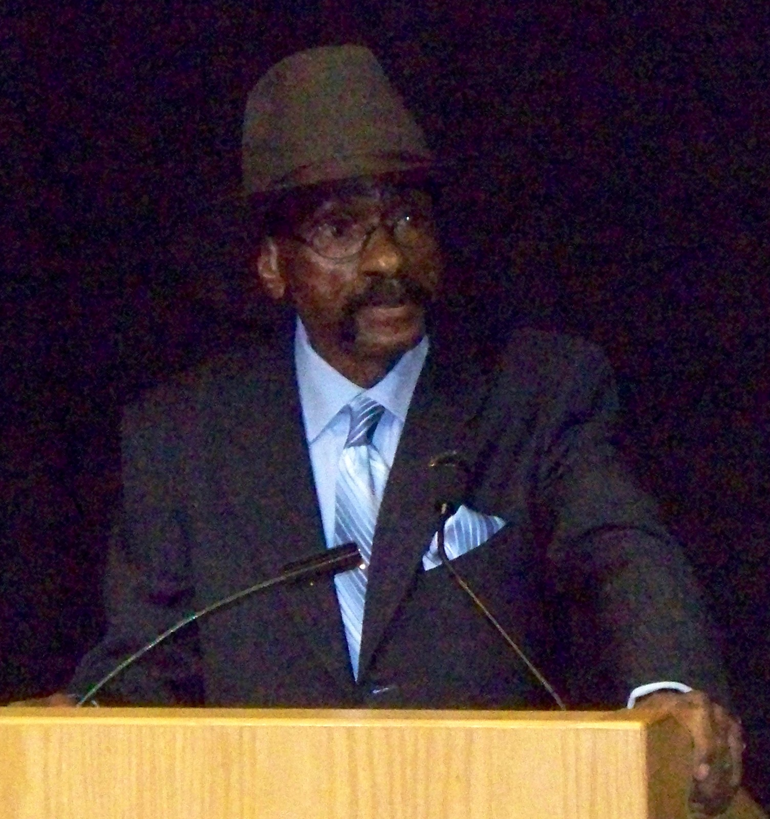 Former middleweight boxer Rubin Carter; falsely convicted of murder; subject of a Bob Dylan song. Carter spoke of his experience at Bunker Hill Community College, Boston, Mass. on March 24, 2011. (revision of the original text)